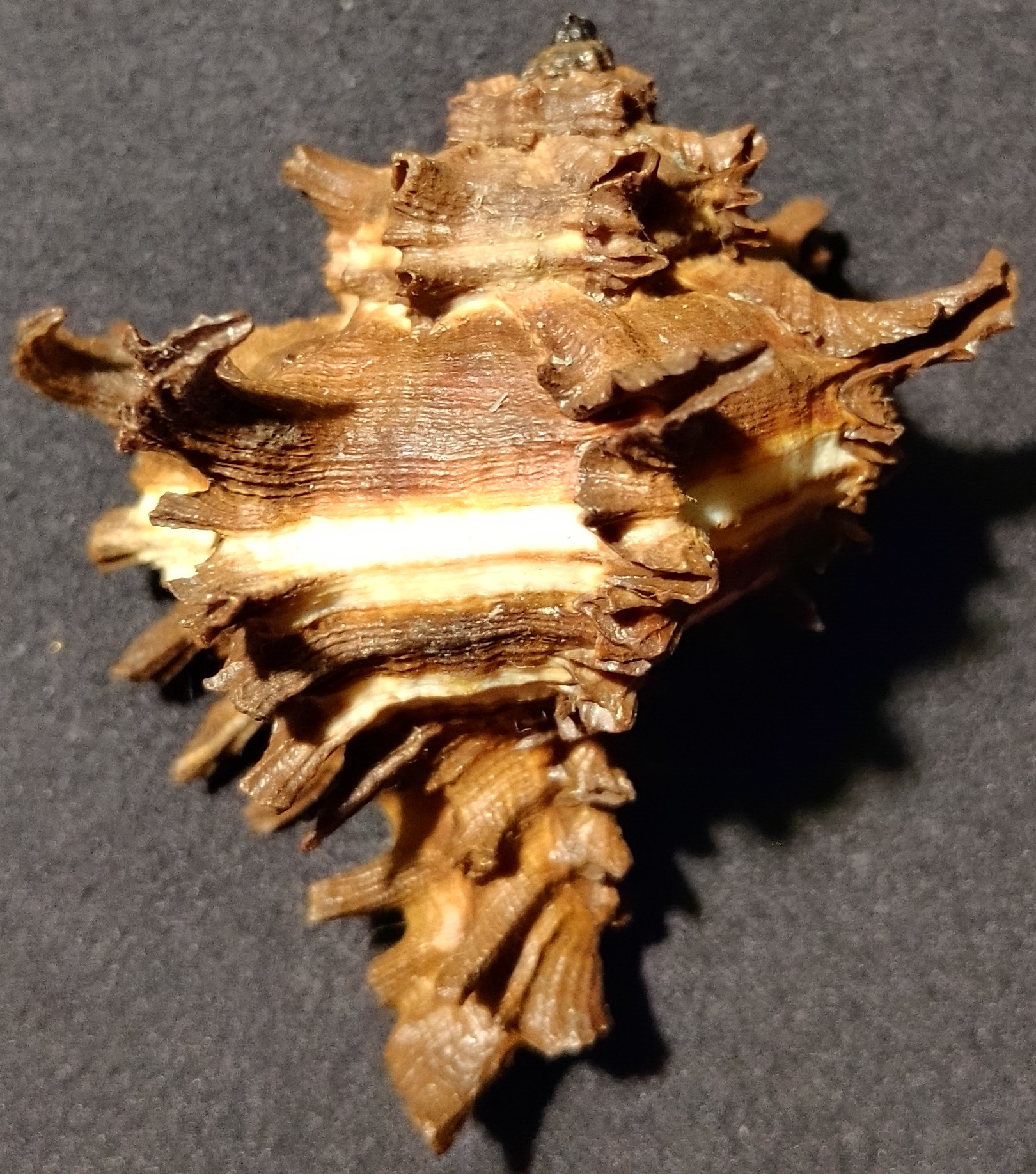 Hexaplex Cichoreum Back